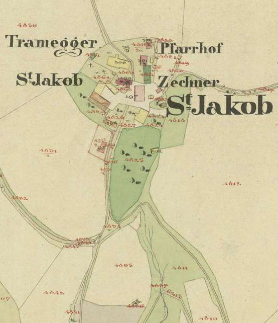 St. Jaokob ob Gurk (also St. Jabob bei Gurk) at Franziszeischer Kataster a map from 1828. St. Jakob ob Gurk is a small village 1,000 m above sea level in the Gurktal Alps Carinthia / Austria / EU.